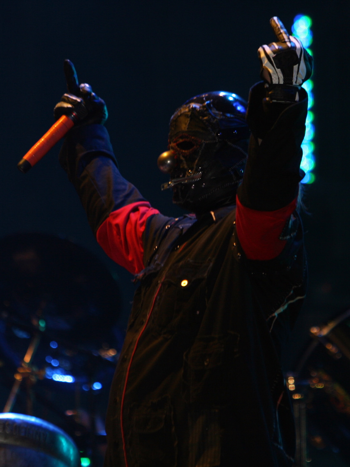 Shawn Crahan at Mayhem Festival in 2008.